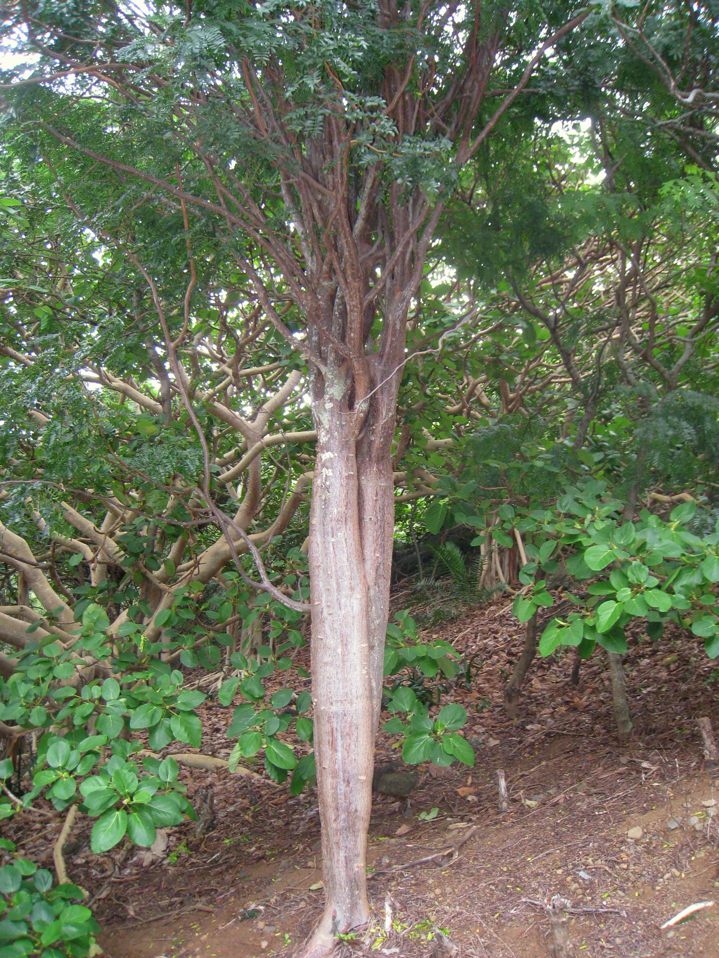 Delonix adansonioides in the Koko Crater Botanical Garden, Honolulu, Hawaii, USA.